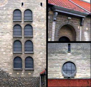 Church by Fritz Peutz in Wittevrouwenveld quarter, Maastricht, the Netherlands